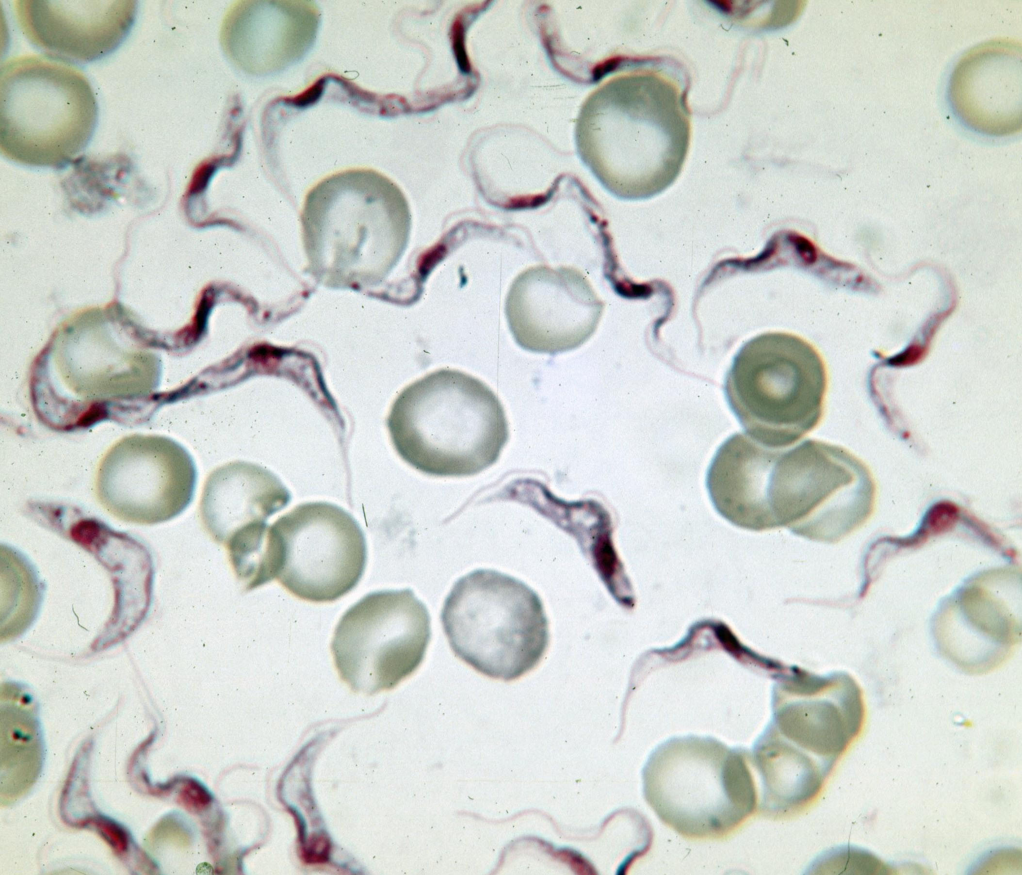 Trypanosoma brucei protozoa